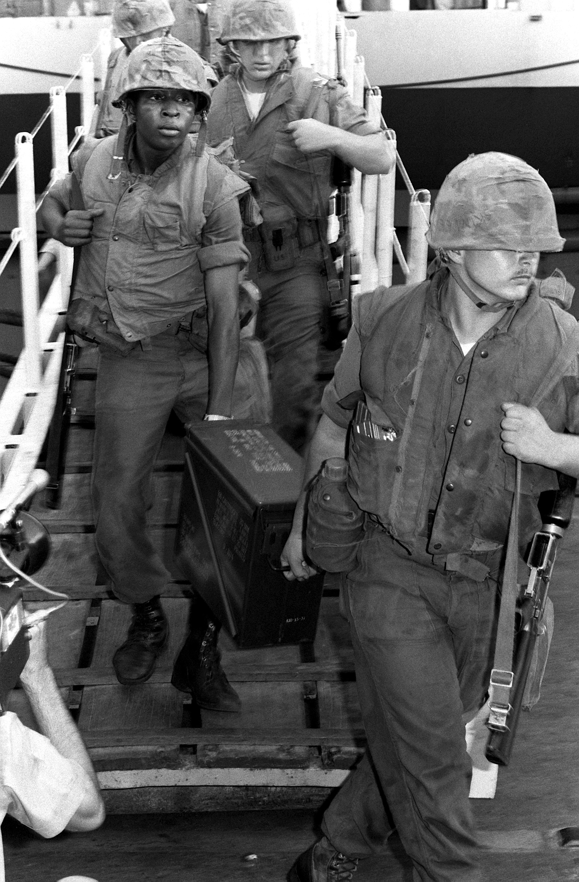 U.S. Marines from Company G and Company E, 2nd Battalion, 9th Marines, depart the aircraft carrier USS Coral Sea (CV-43) following the rescue operation of the merchant vessel SS Mayaguez and the Kon Tang Island Operation.